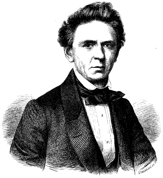 Norwegian politician Ketil Motzfeldt. Engraving by Wilhelm Obermann